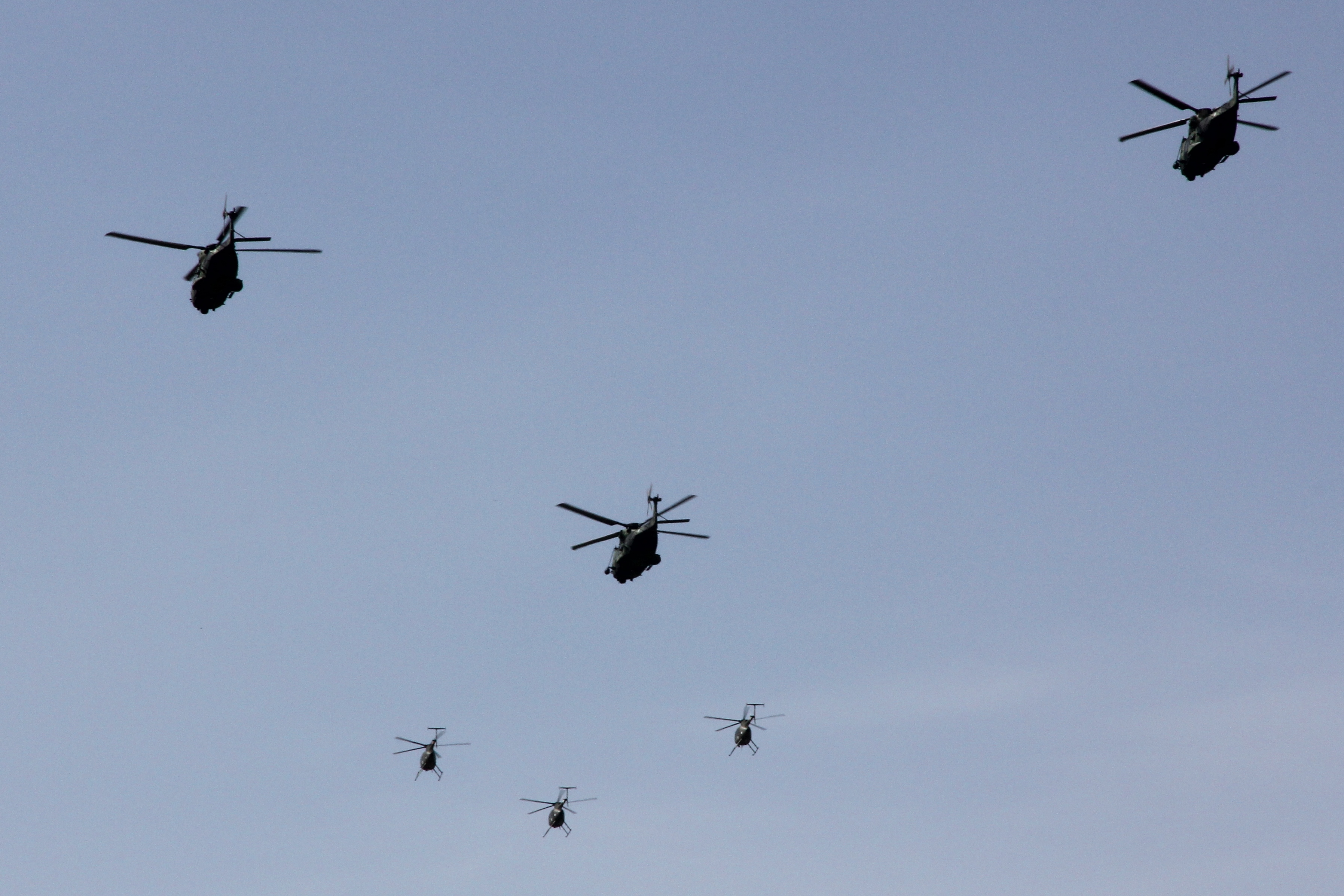 Overflight by Hughes MD-500 and NH90 helicopters during the Finnish military Flag Day 2014 parade along Valtakatu street in Lappeenranta.